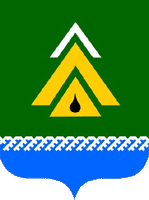 Coat of Arms of Nizhnevartovsky rayon (Khanty-Mansyisky AO)